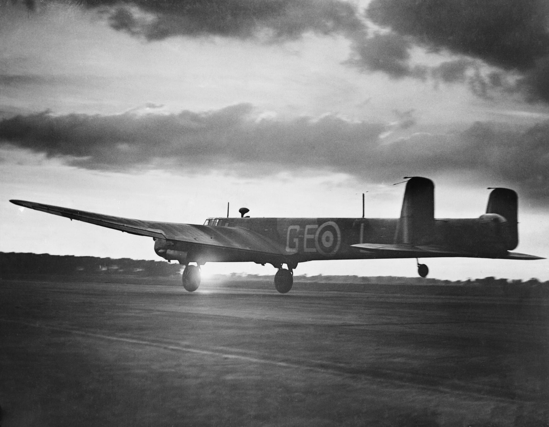 An Armstrong Whitworth Whitley Mk V of No. 58 Squadron RAF takes off on a night sortie from Linton-on-Ouse, Yorkshire, June 1940. Armstrong Whitworth Whitley Mark V, N1463 'GE-L', of No. 58 Squadron RAF, takes off on a night sortie from Linton-on-Ouse, Yorkshire. This aircraft later went missing during a bombing sortie to Gelsenkirchen, Germany, on 17/18 June 1940.